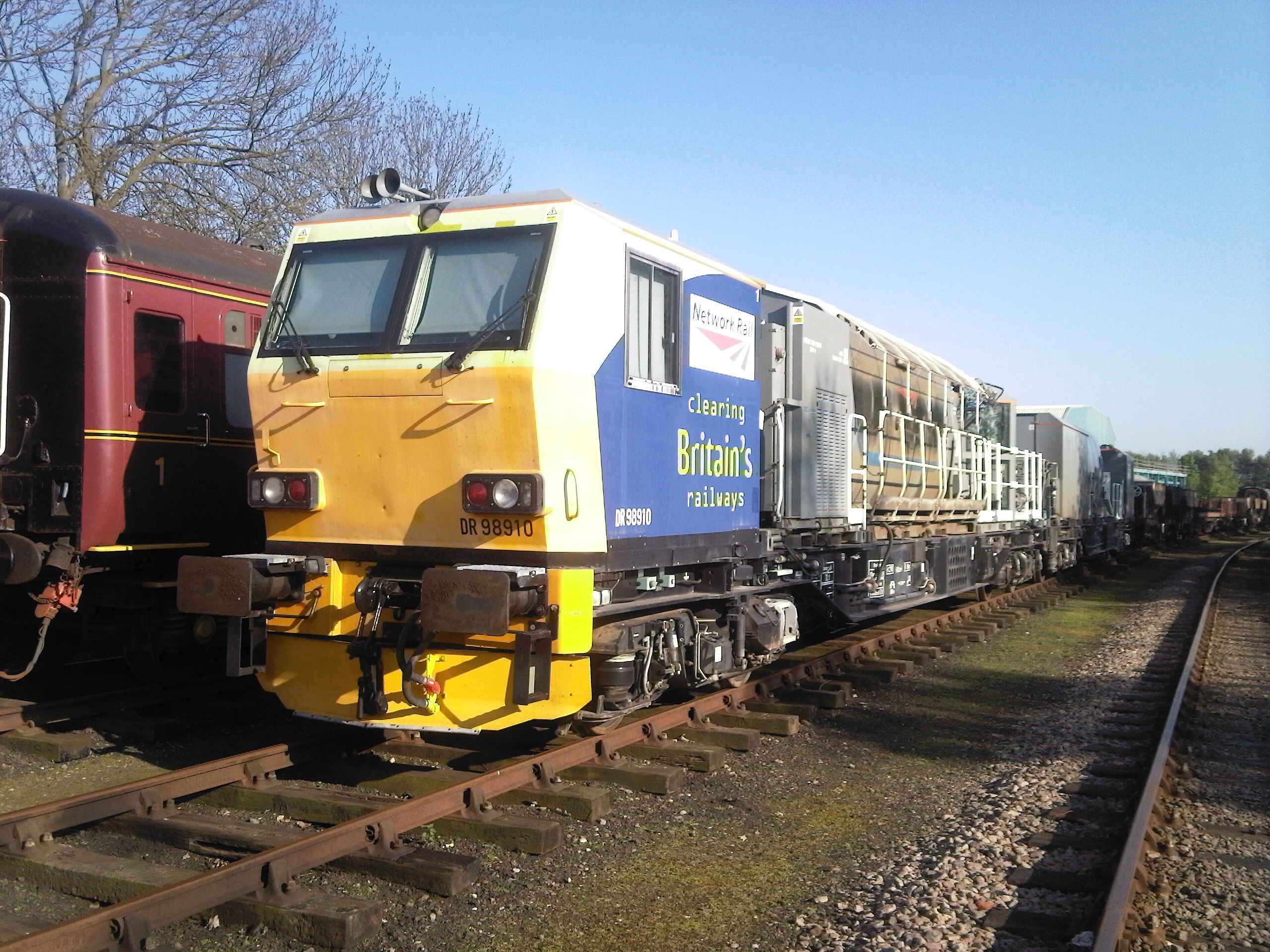 Network Rail Windhoff Multi-Purpose Vehicle DR98910/60 at Dereham